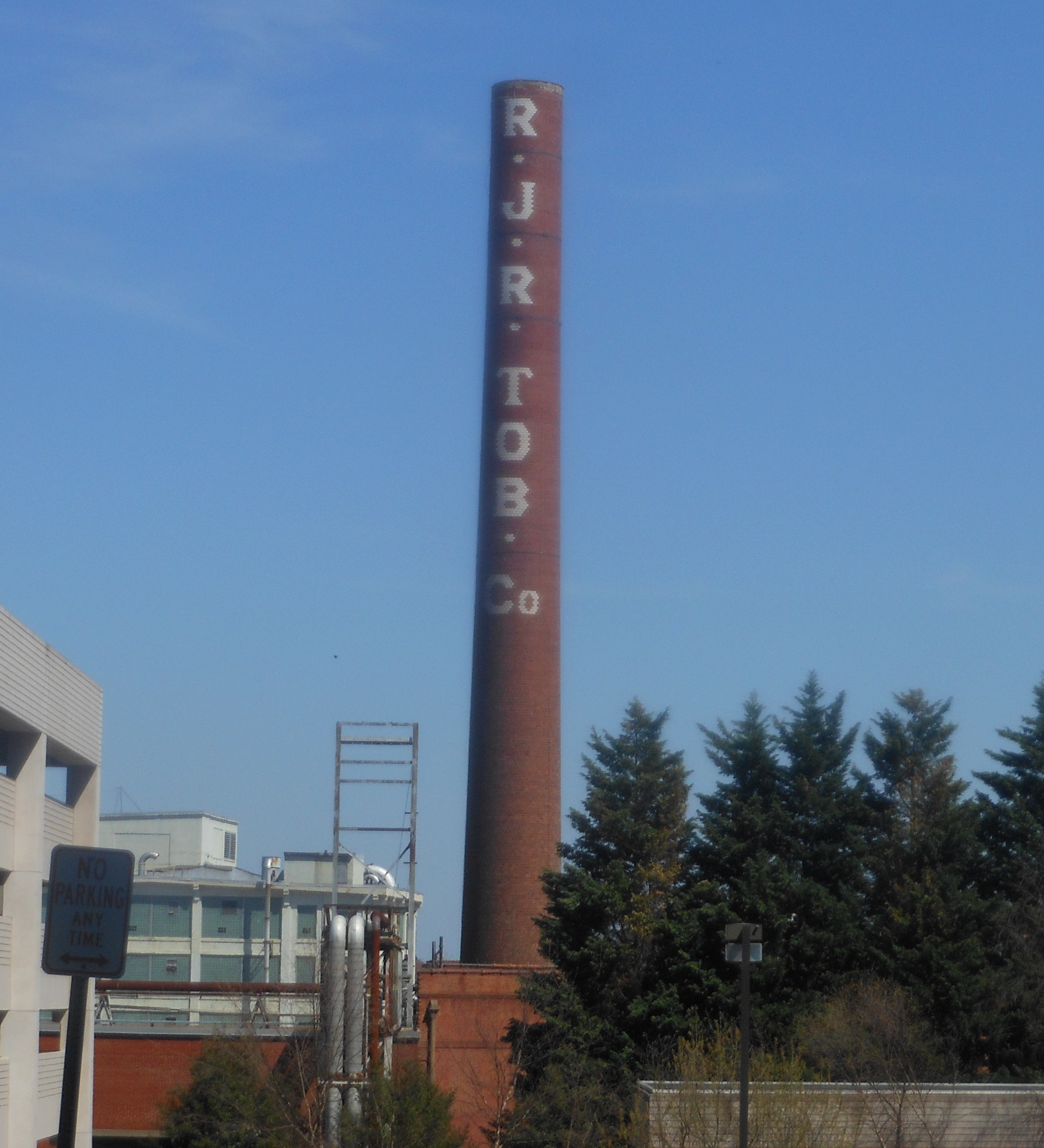 R.J. Reynolds Tobacco Factories in Downtown Winston-Salem, NC